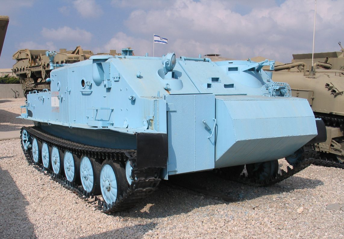 Description: BTR-50-based medevac vehicle in Yad la-Shiryon Museum, Israel. 2005. The vehicle was used by the South Lebanon Army. Source: Photo by me, User:Bukvoed